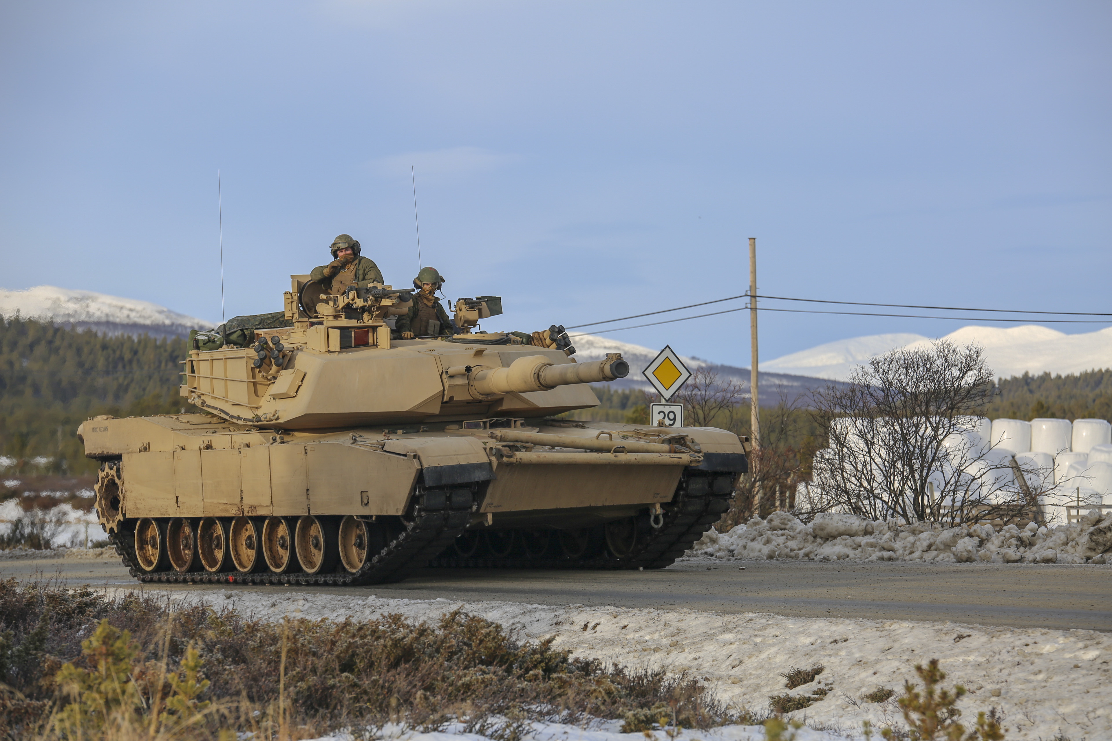 U.S. Marines with 2nd Tank Battalion, 2D Marine Division, advance on their eastern objective defended by opposing Spanish forces during Exercise Trident Juncture 18 near Dalholen, Norway, Nov. 3, 2018. Trident Juncture 18 enhances the U.S. and NATO Allies’ and partners’ abilities to work together collectively to conduct military operations under challenging conditions. (U.S. Marine Corps photo by Sgt. Averi Coppa/Released)